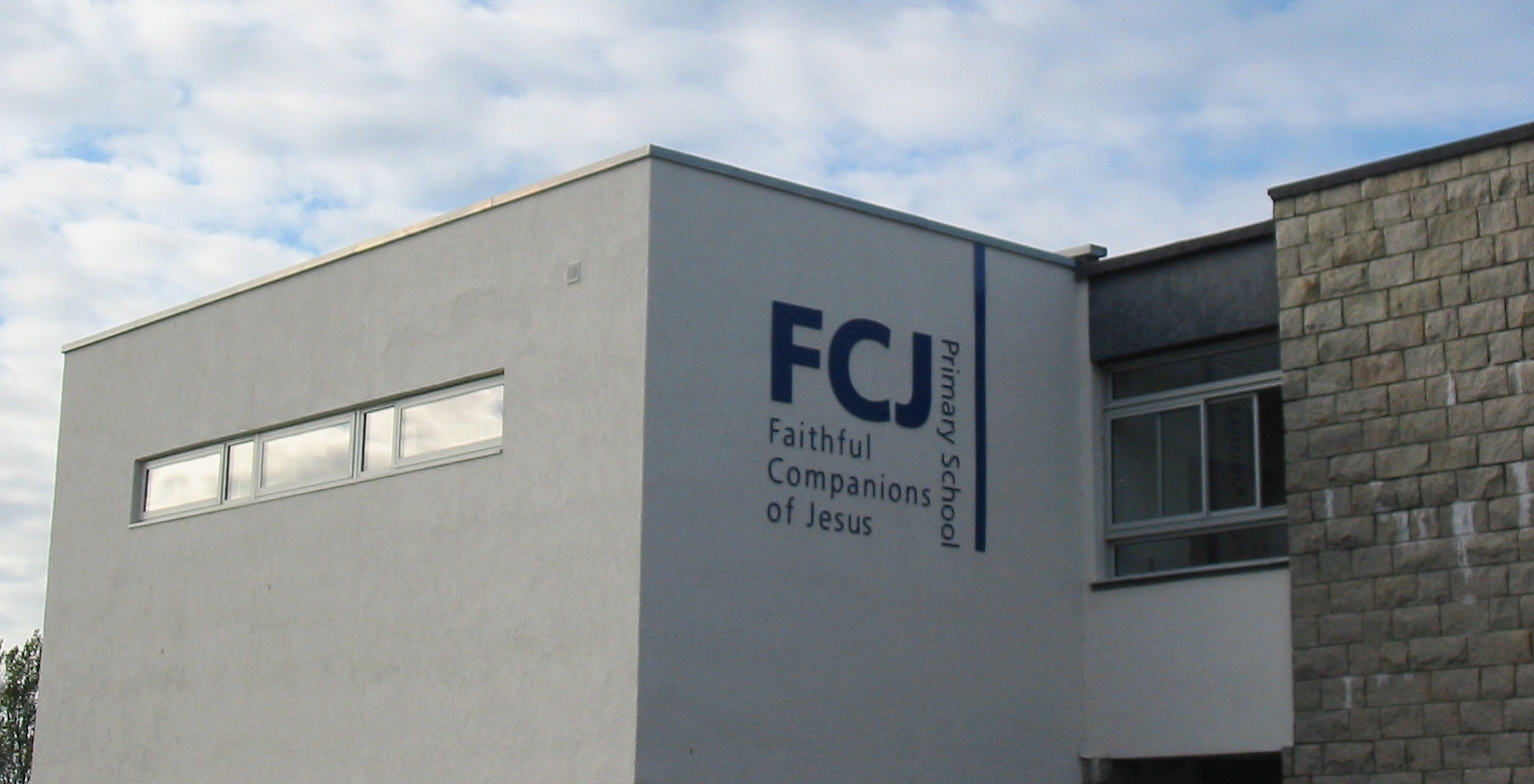 FCJ primary school, Jersey - Faithful Companions of Jesus Nrf: Êcole FCJ, Jèrri